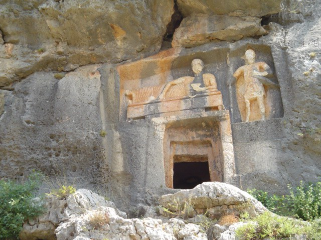 A rock-cut tomb in Kanytelleis (Kanlidivane in Turkish, open area museum in Erdemli district of Mersin Province of Turkey.